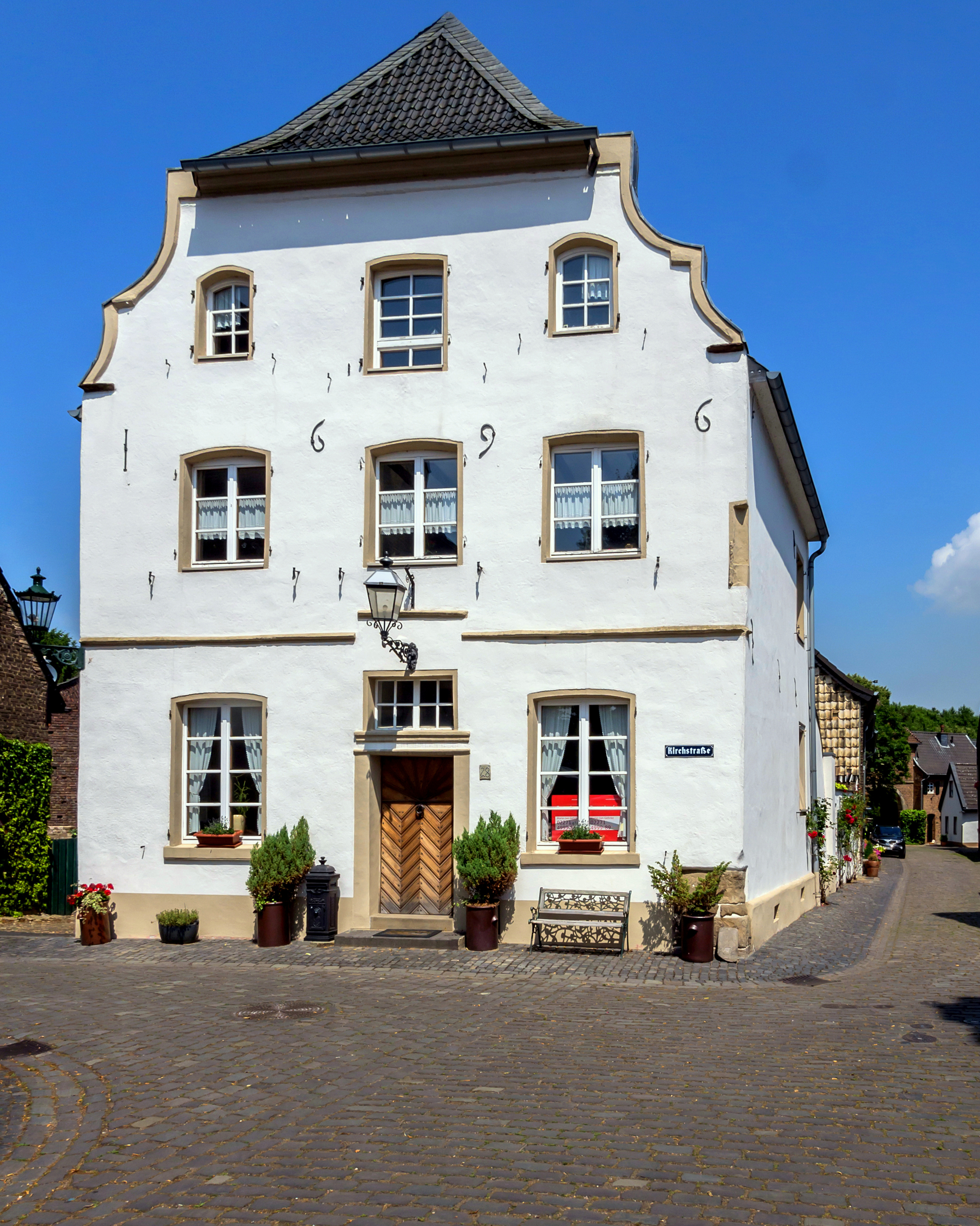 Kaster - Kirchstraße 28 Wohnhaus, Alt-KasterThis is a photograph of an architectural monument., no. 4